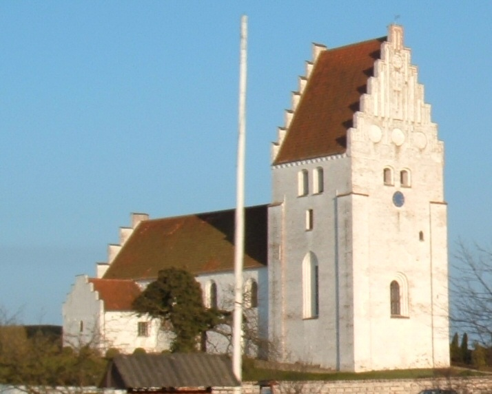 Elmelunde Church, on the island of Møn, Denmark. Taken by contributor, spring 2006. Church dates from the 12th century and is decorated with frescoes.